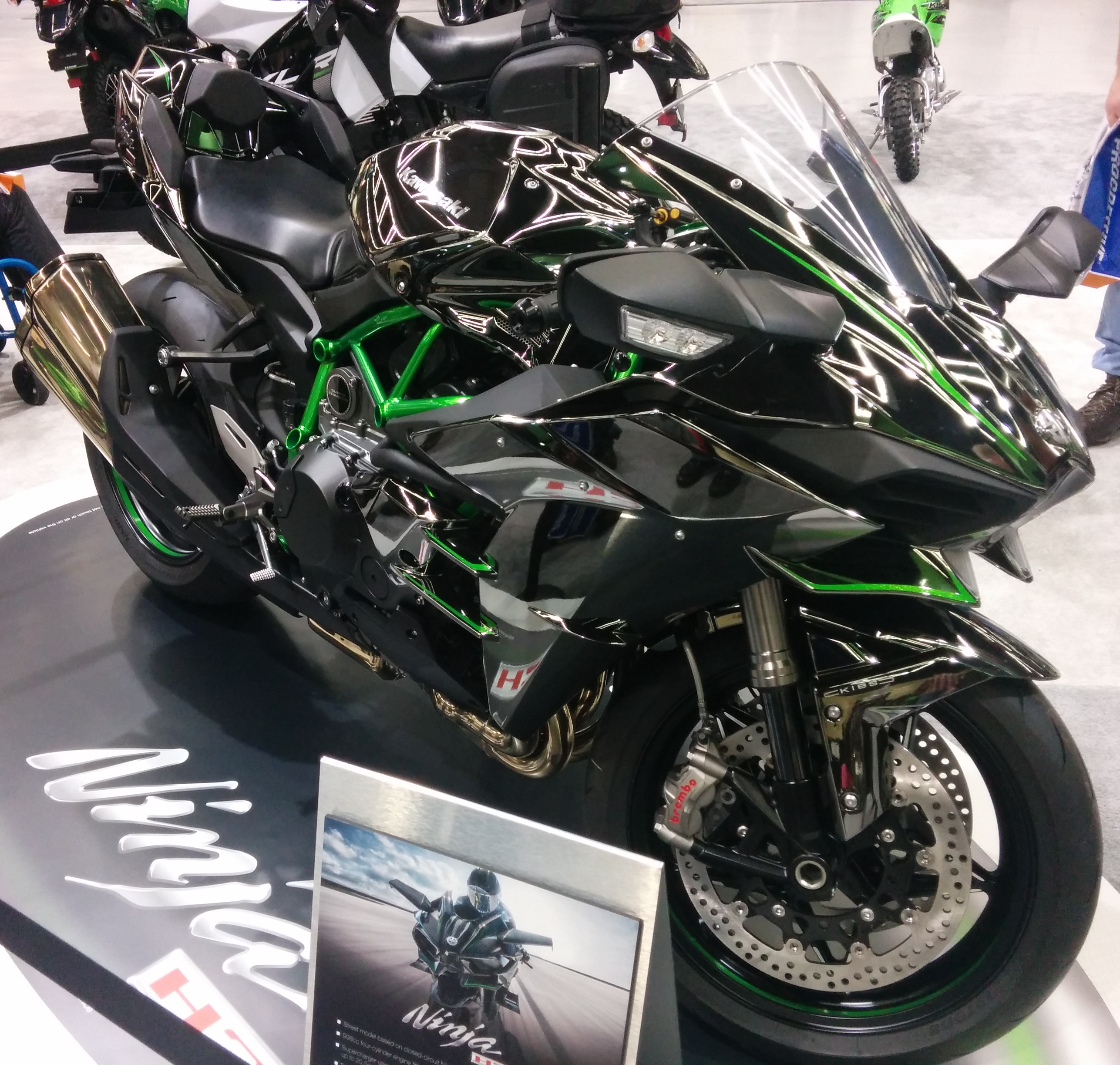 Kawasaki Ninja H2 at the Seattle motorcycle show